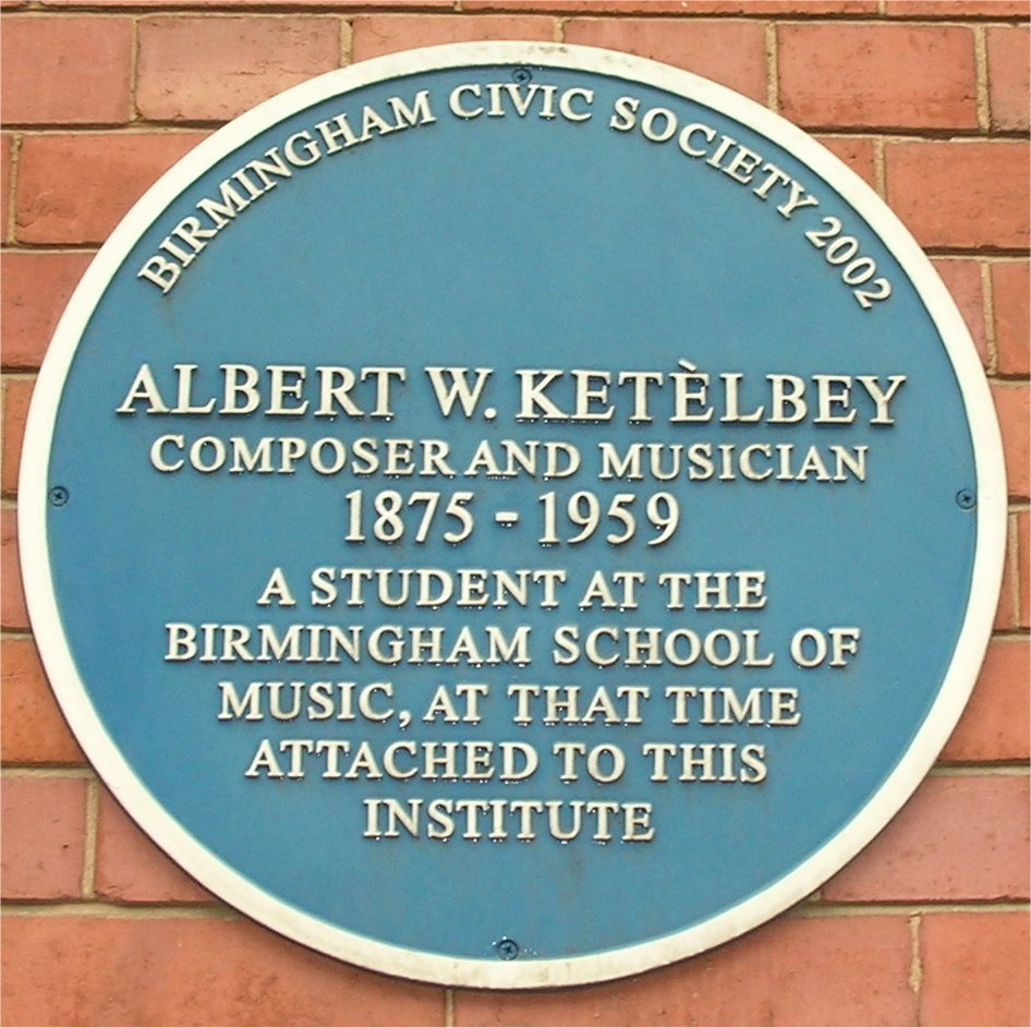 Blue plaque to Albert Ketèlbey on the Cornwall Street wall of the Birmingham and Midland Institute in Birmingham, England. Photographed by me 1 November 2007. Oosoom